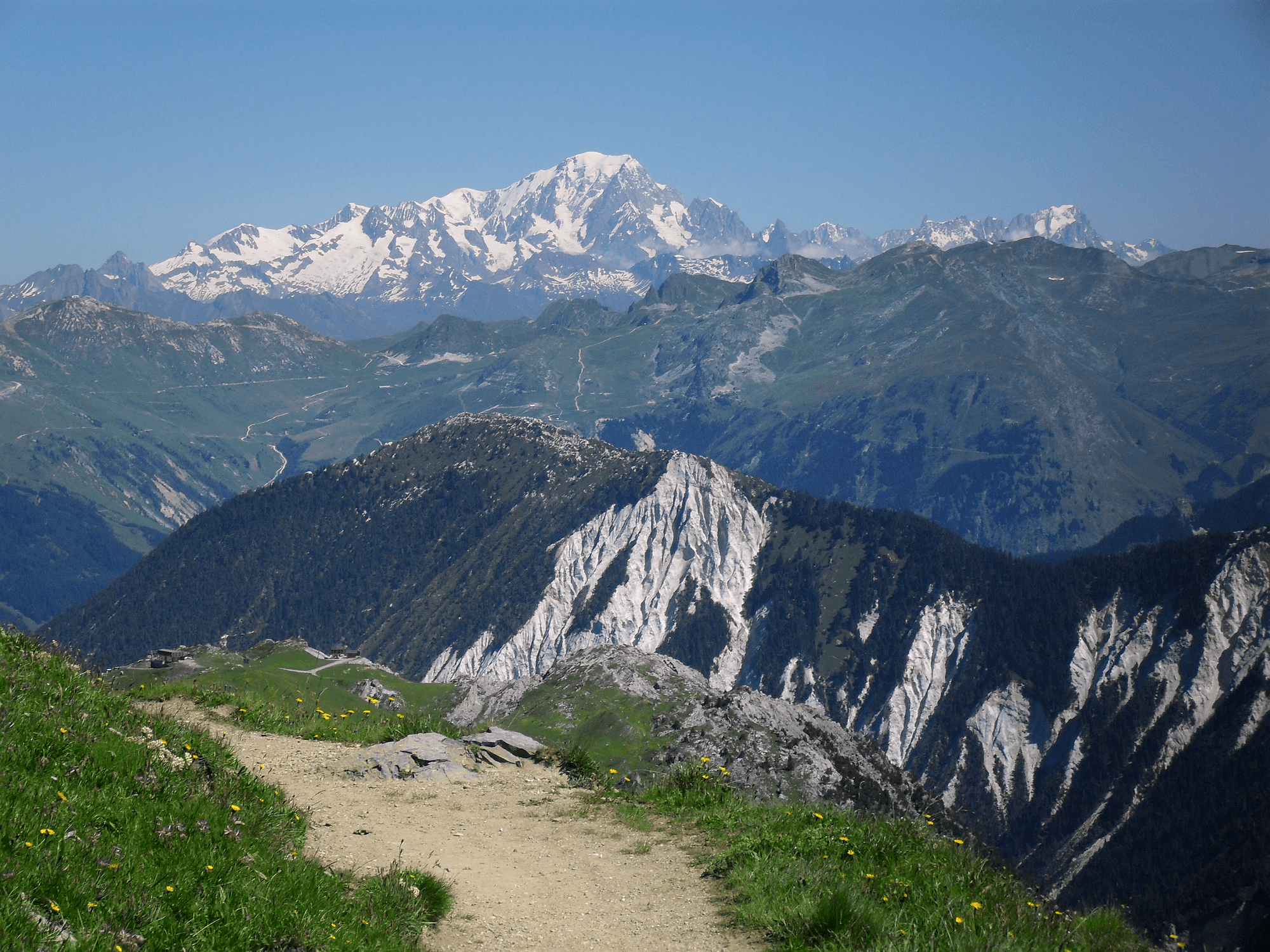 The Dent du Villard, seen from the path near the source of the Ruisseau de la Planche; with the Mont Blanc massif in the background.